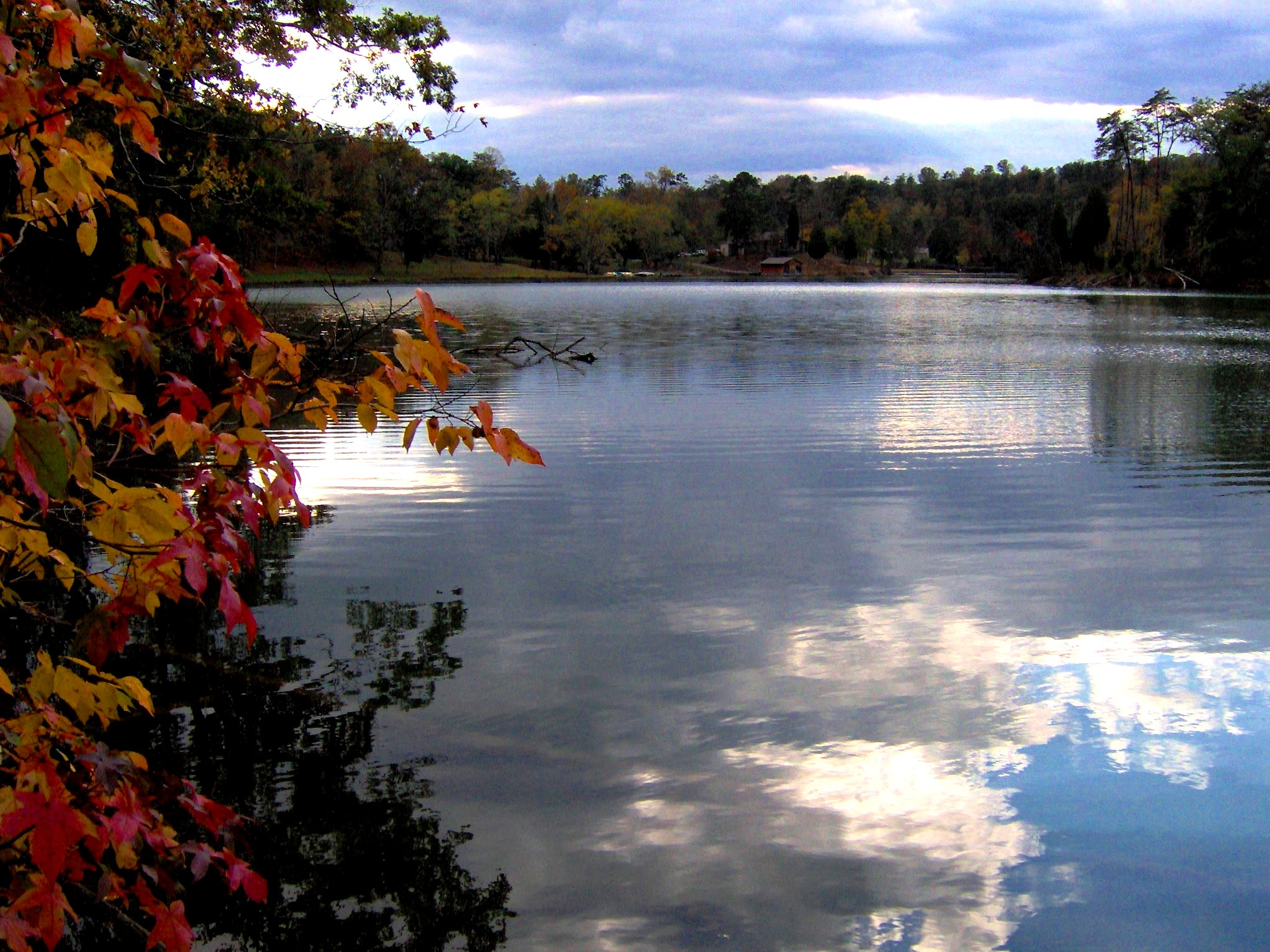 Big Ridge Lake at Big Ridge State Park in Union County, Tennessee, in the southeastern United States. This view is from the short trail connecting the Norton Gristmill to the cabin area.